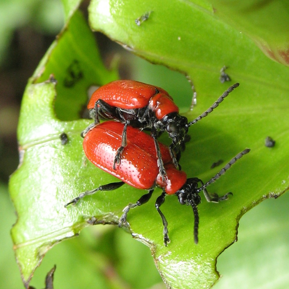 Criocère du lis -- Lily Leaf Beetle Approximately 7-8 mm long (from the head to the tip of the abdomen). Environ 7-8 mm de long. Phylum Arthropoda (Arthropods) Class Insecta (Insects) Subclass Pterygota (Winged Insects) Order Coleoptera (Beetles) Family Chrysomelidae (Leaf Beetles) Subfamily Criocerinae Genus Lilioceris Species lilii (Lily Leaf Beetle) (From ) Bas-Saint-Laurent -- Province de Québec -- Canada 3089-2007 Canon PowerShot A620 Prise en juin 2007 -- Taken in June 2007